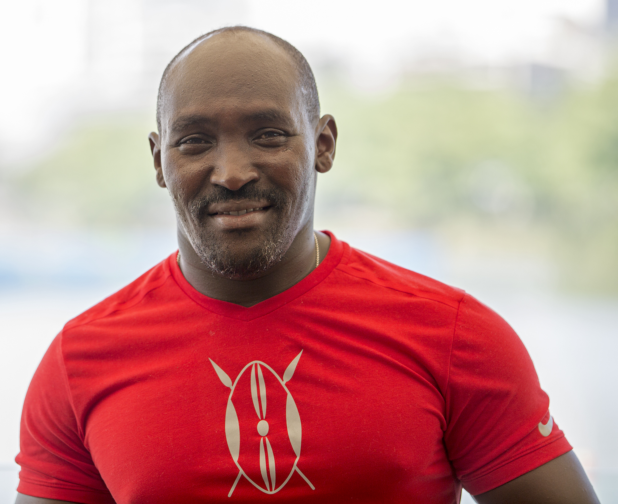 Itaken Kipelian, Kenyan rower.